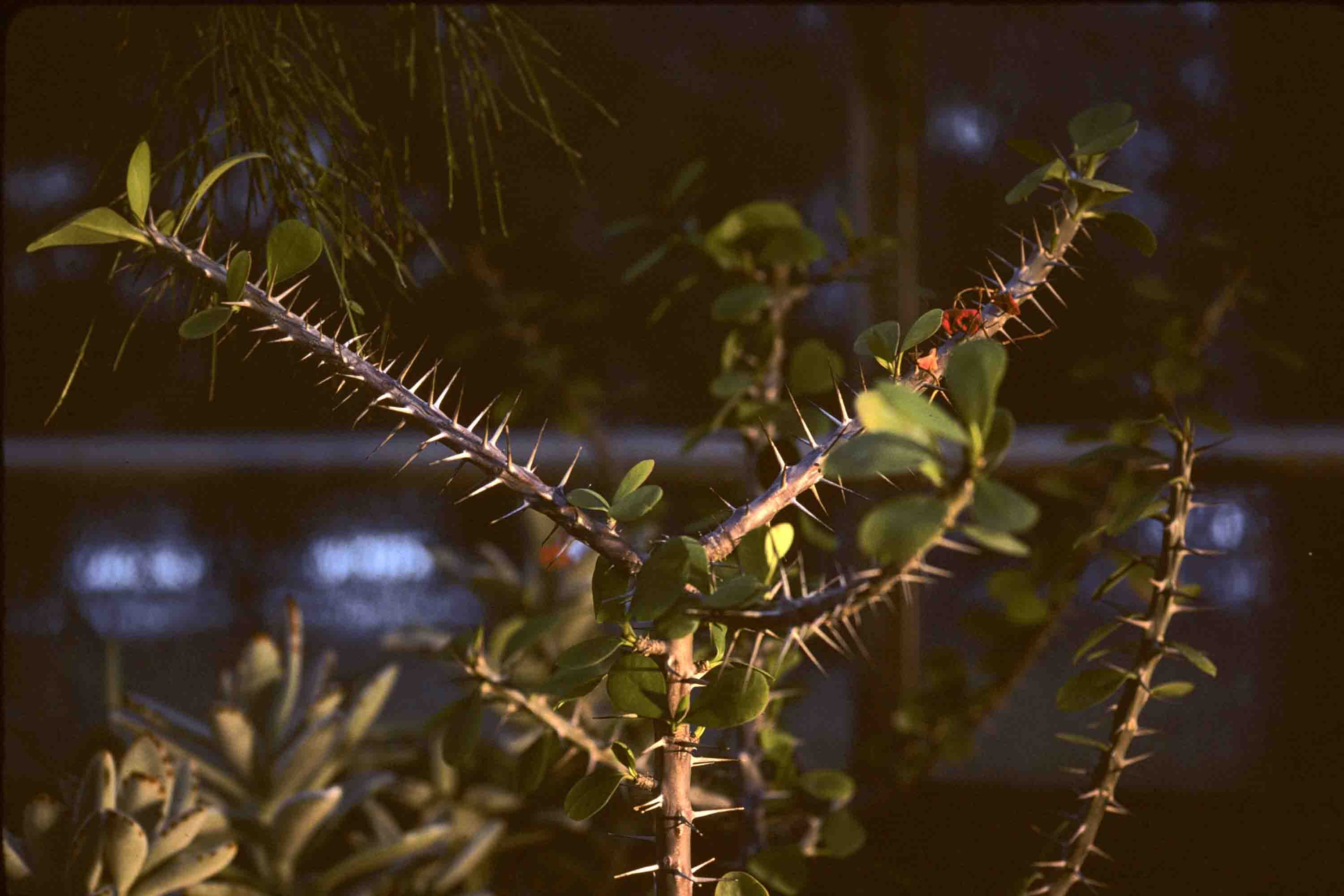 Euphorbia milii, Crown of thorns Family: Euphorbiacae